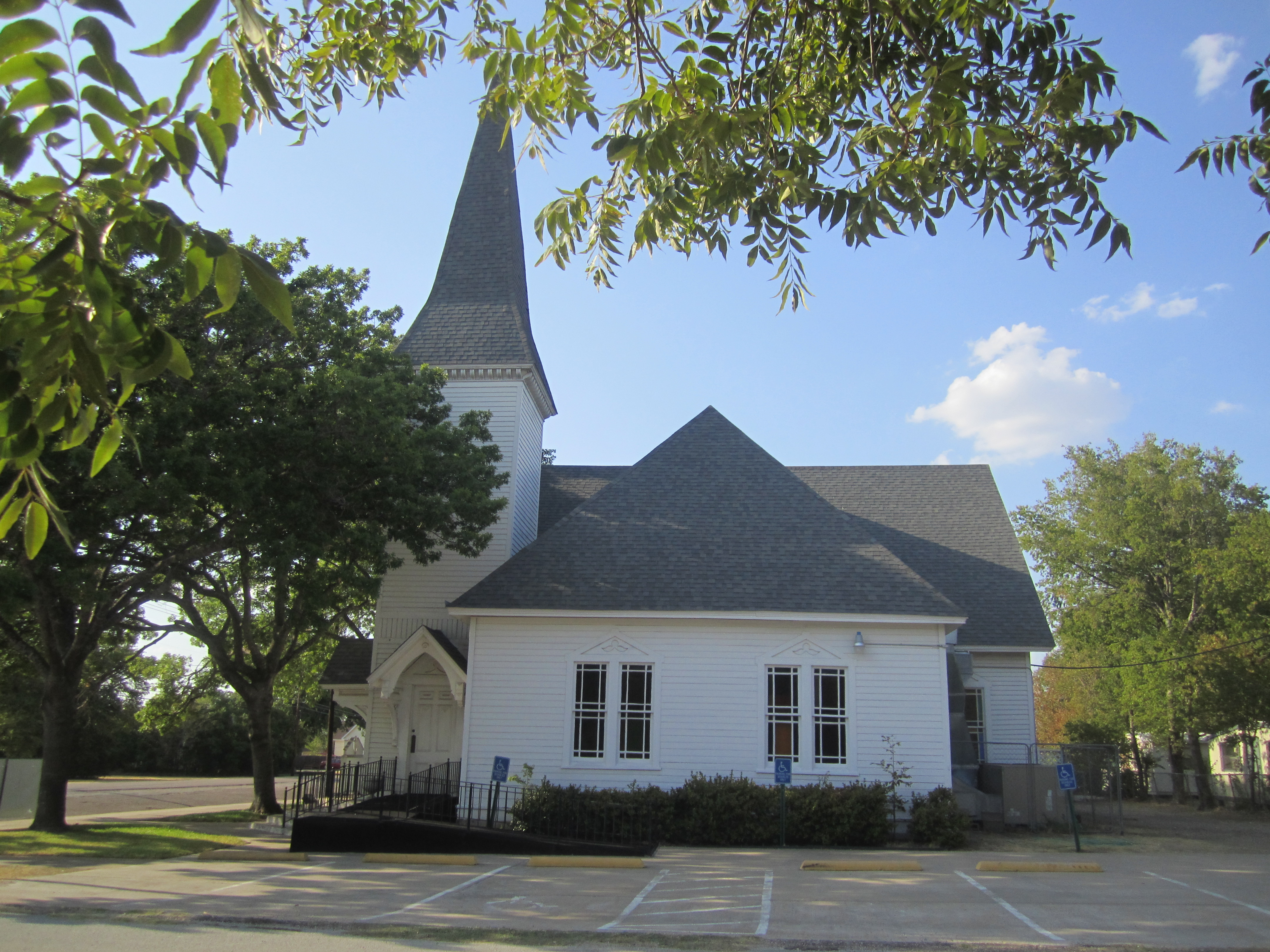 I took photo with Canon camera of First United Methodist Church in Lorena, TX.